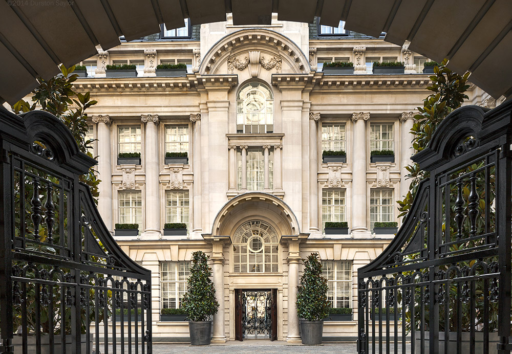 Guests arrive at Rosewood London through an archway that opens into a grand Edwardian courtyard, in a little oasis of tranquillity unique among London luxury hotels. This entrance and courtyard featured as the Italian embassy in the Agatha Christie's Poirot episode "The Adventure of the Italian Nobleman" (1993).